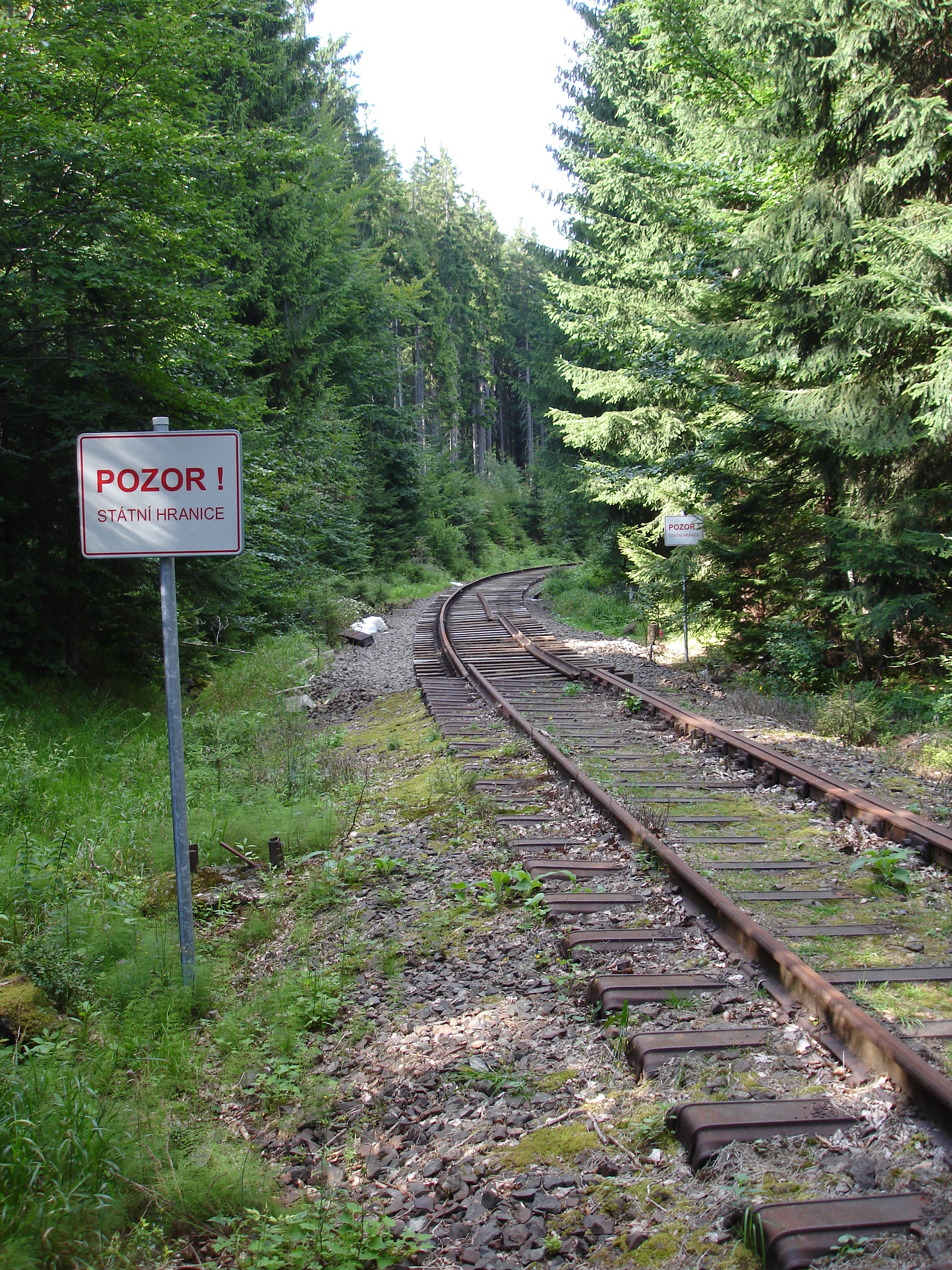 Railway line Jelenia Gora-Korenov: state border beetween Czech republic and Poland near Harrachov